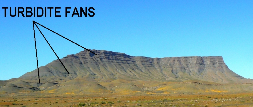 A mountain in the Tanqua Karoo, South Africa, with multiple layers of turbidites formed in the south-western portion of the Karoo Sea about 300 million years. Turbidite fans are common in the Ecca rocks of the Tanqua Karoo all the way round to Laingsburg.in the Moordenaarskaroo, south, and below the Great Escarpment, of the Sutherland Astronomical Observatory.